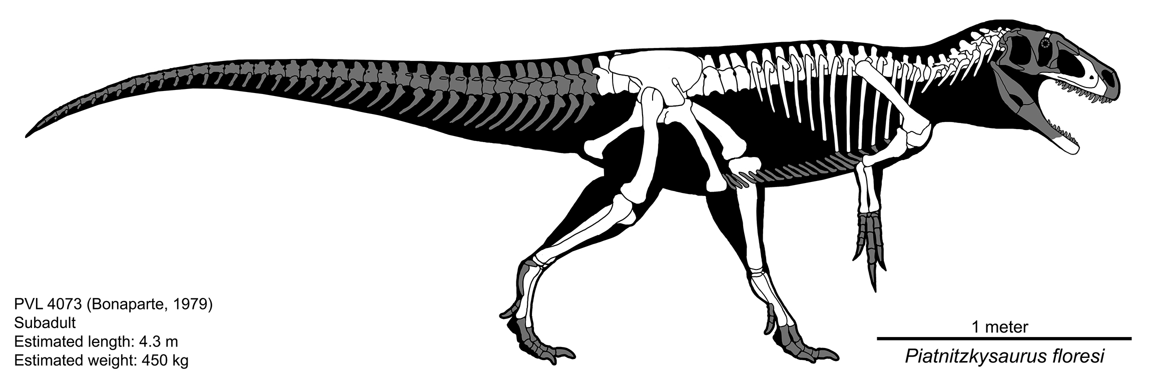 Piatnitzkysaurus floresi skeletal reconstruction based on PVL 4073.